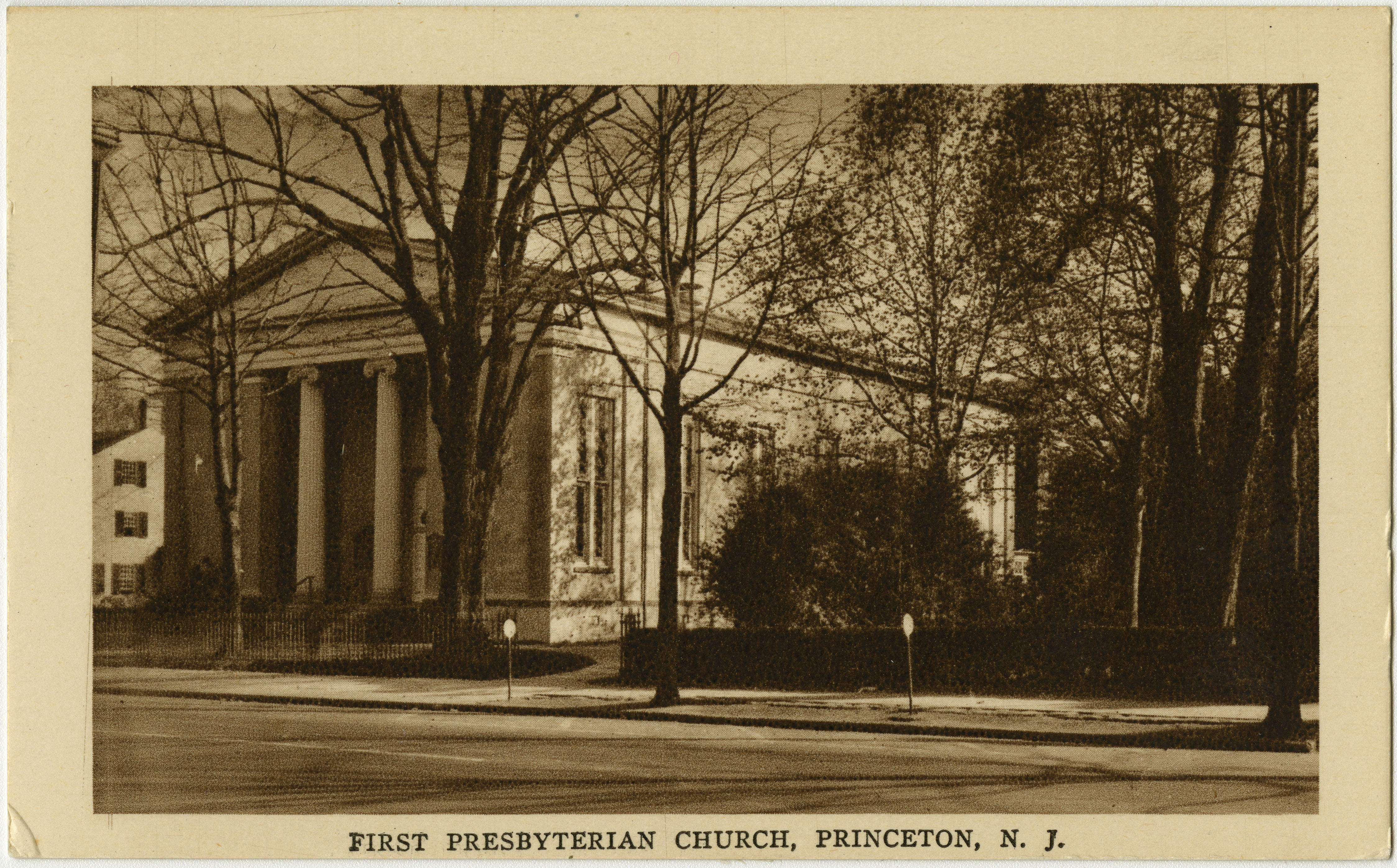 Presbyterian church in Princeton, New Jersey from a pre-1923 postcard From RG 428, Postcard Collection, Presbyterian Historical Society, Philadelphia, Pennsylvania.